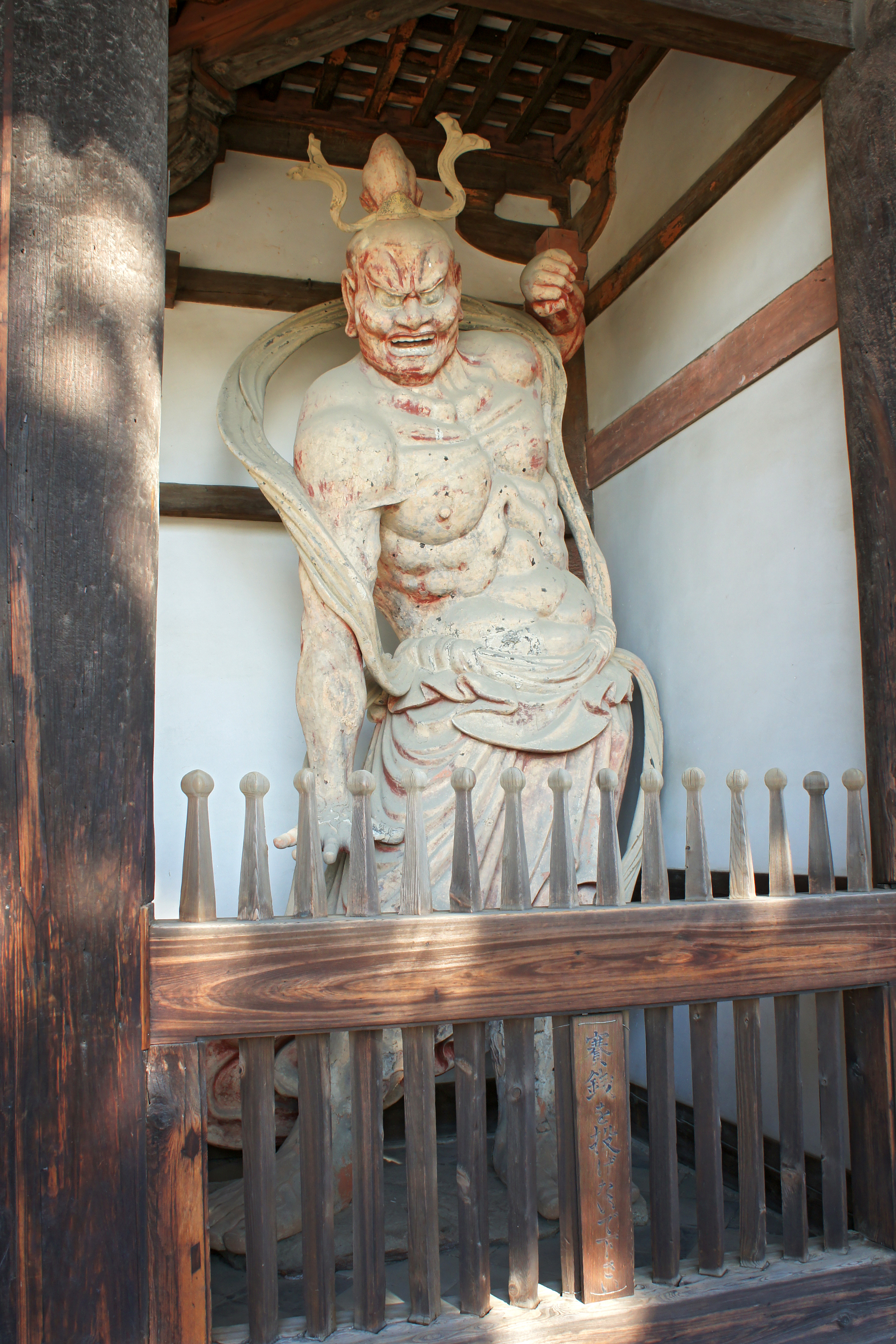 Kongōrikishi of Hōryū-ji is a Important Cultural Property of Japan. Hōryū-ji is a Buddhist temple in Ikaruga, Nara prefecture, Japan. It was registered as part of the UNESCO World Heritage Site "Buddhist Monuments in the Hōryū-ji Area".